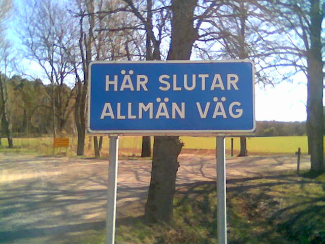 Sign with the text "Public road ends here".